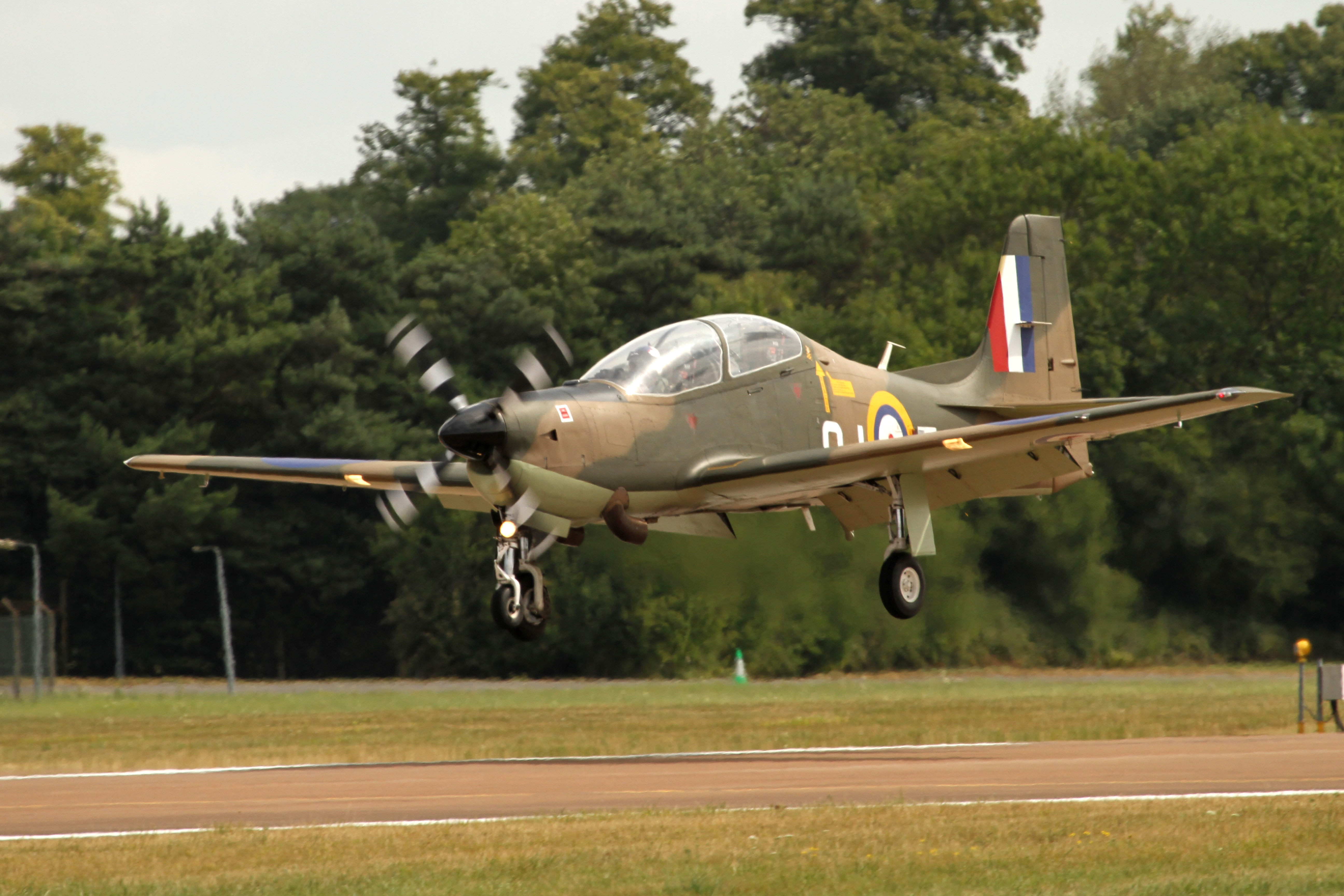 Short Tucano of the Royal Airforce